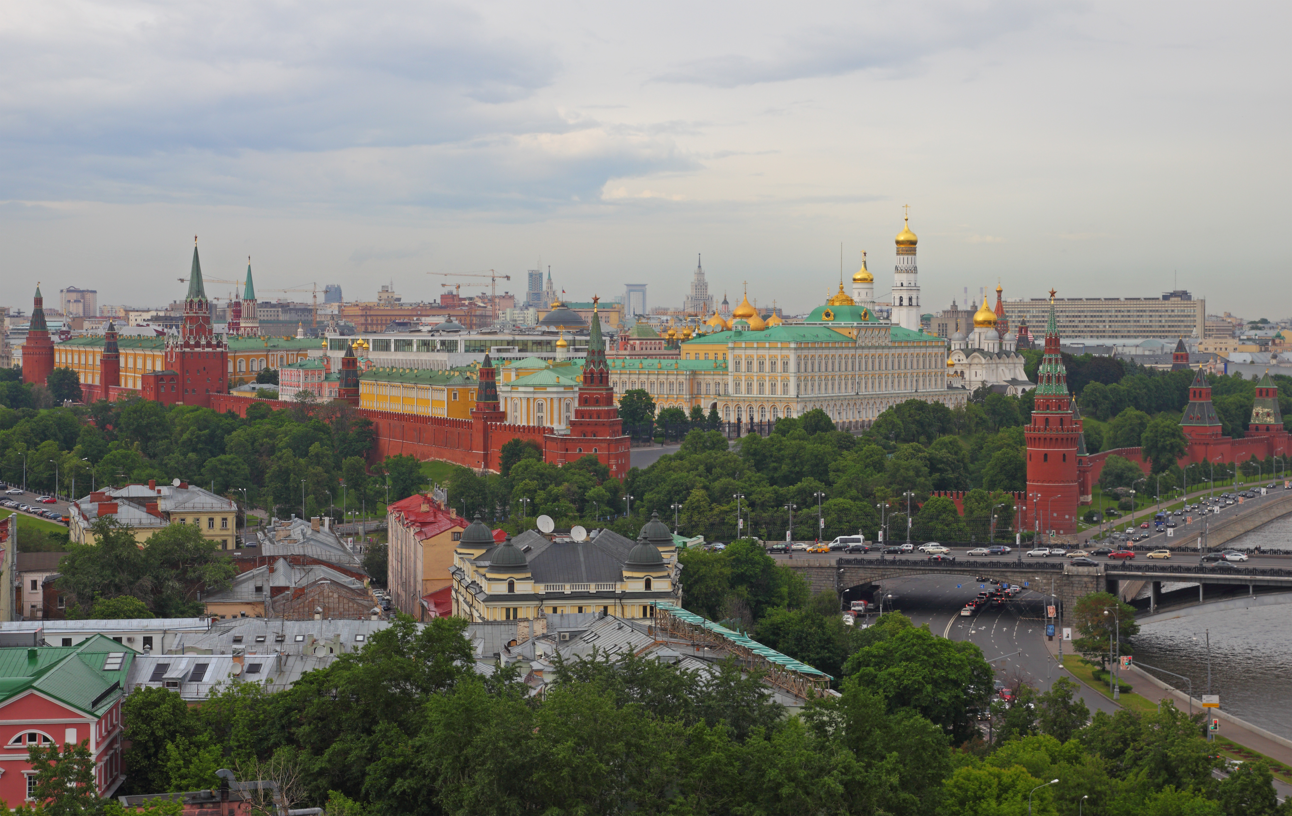 Moscow, Russia. General view of the Moscow Kremlin.